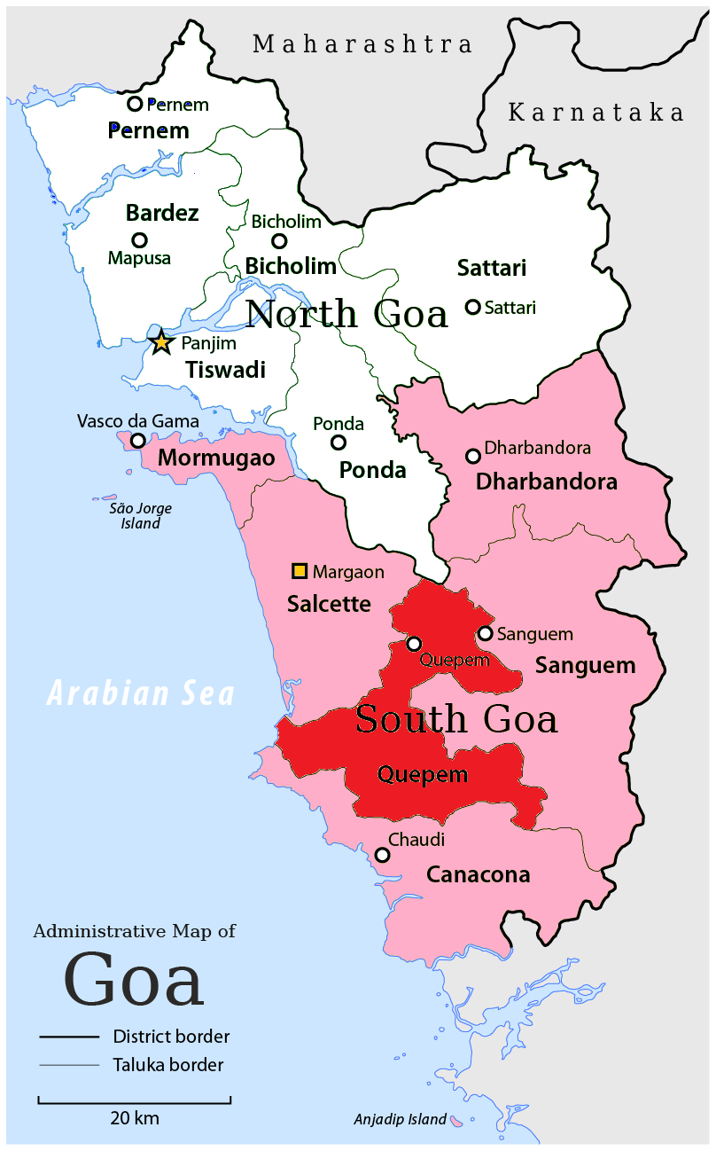 Quepem_taluka_in_South_Goa_district